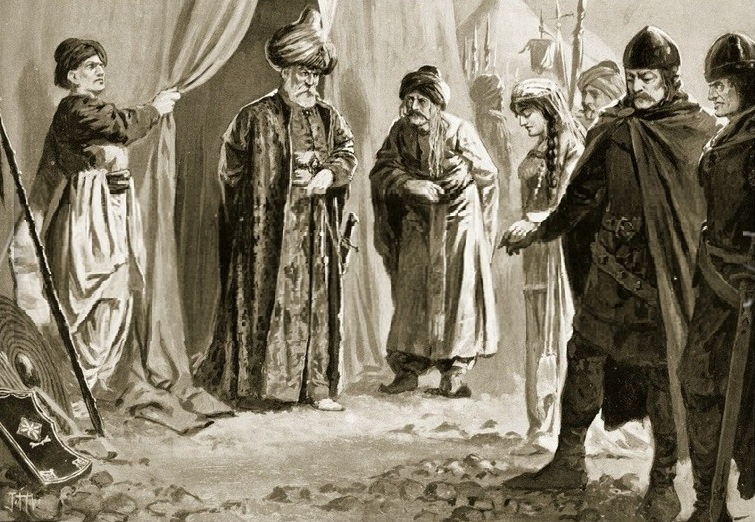 Tsar Shisman and sultan Murad